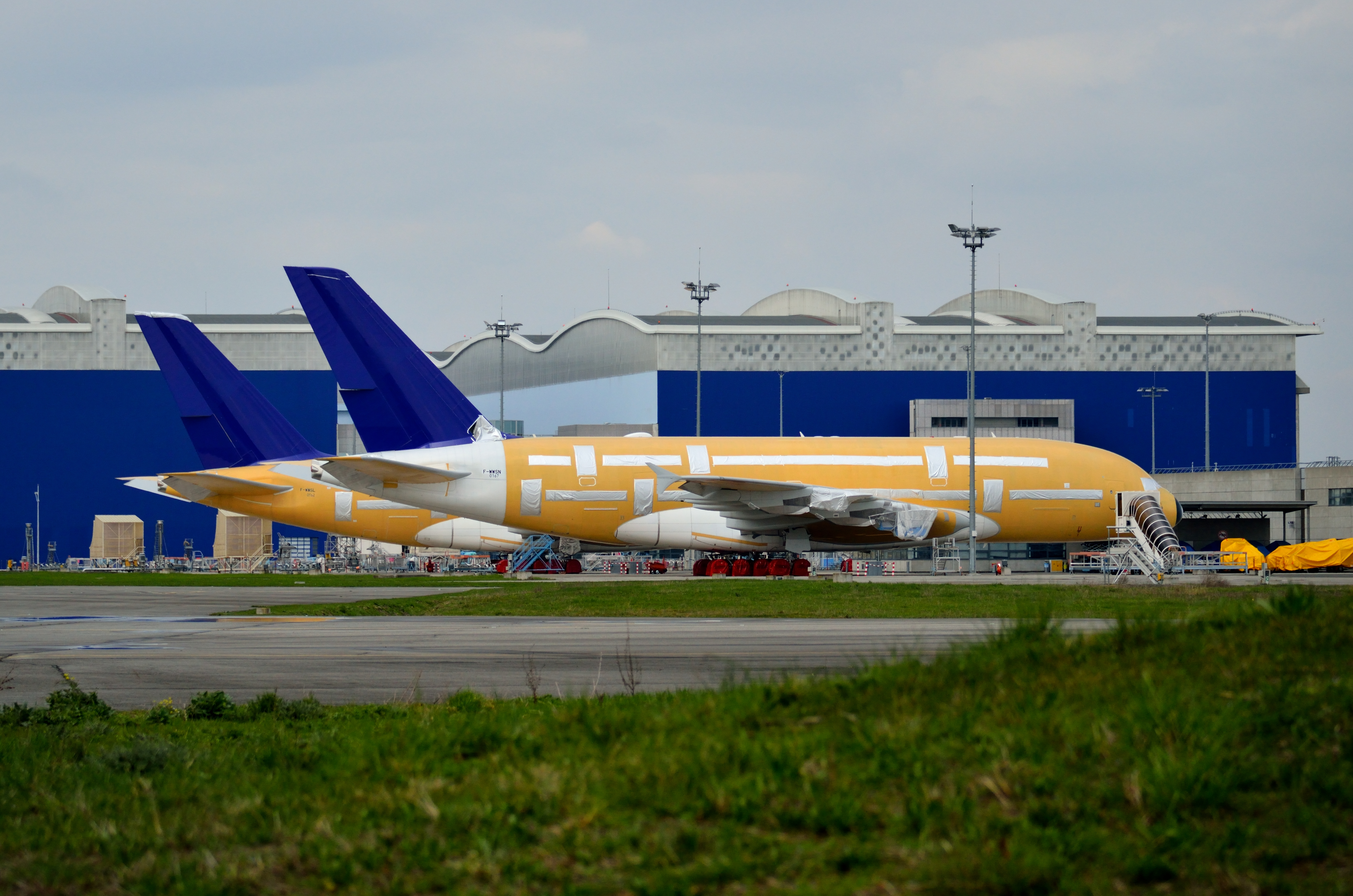 Two A380s stored at Lagardère after Airbus canceled Skymark's A380 order.